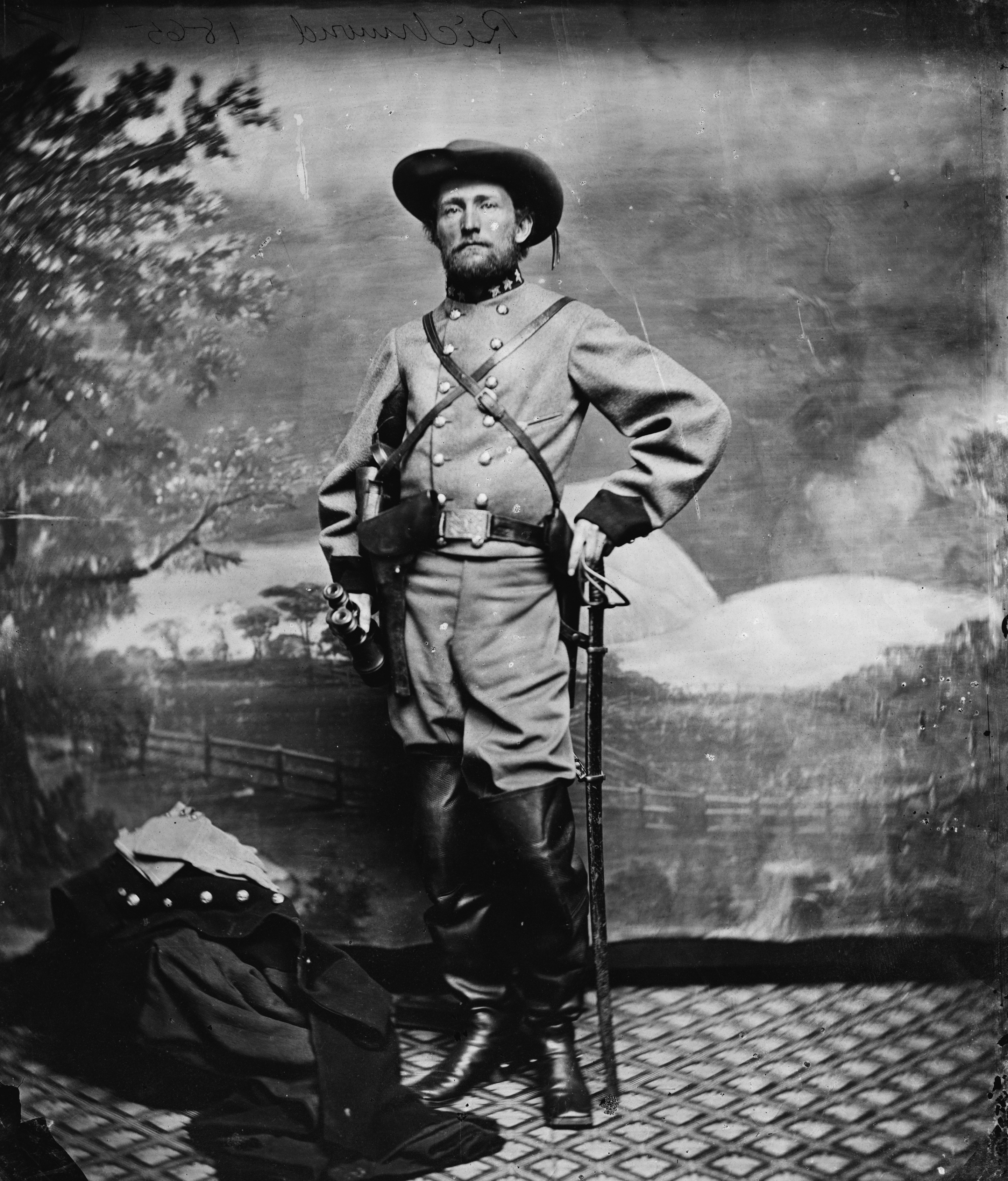 Library of Congress description: "Col. John S. Mosby, C.S.A."